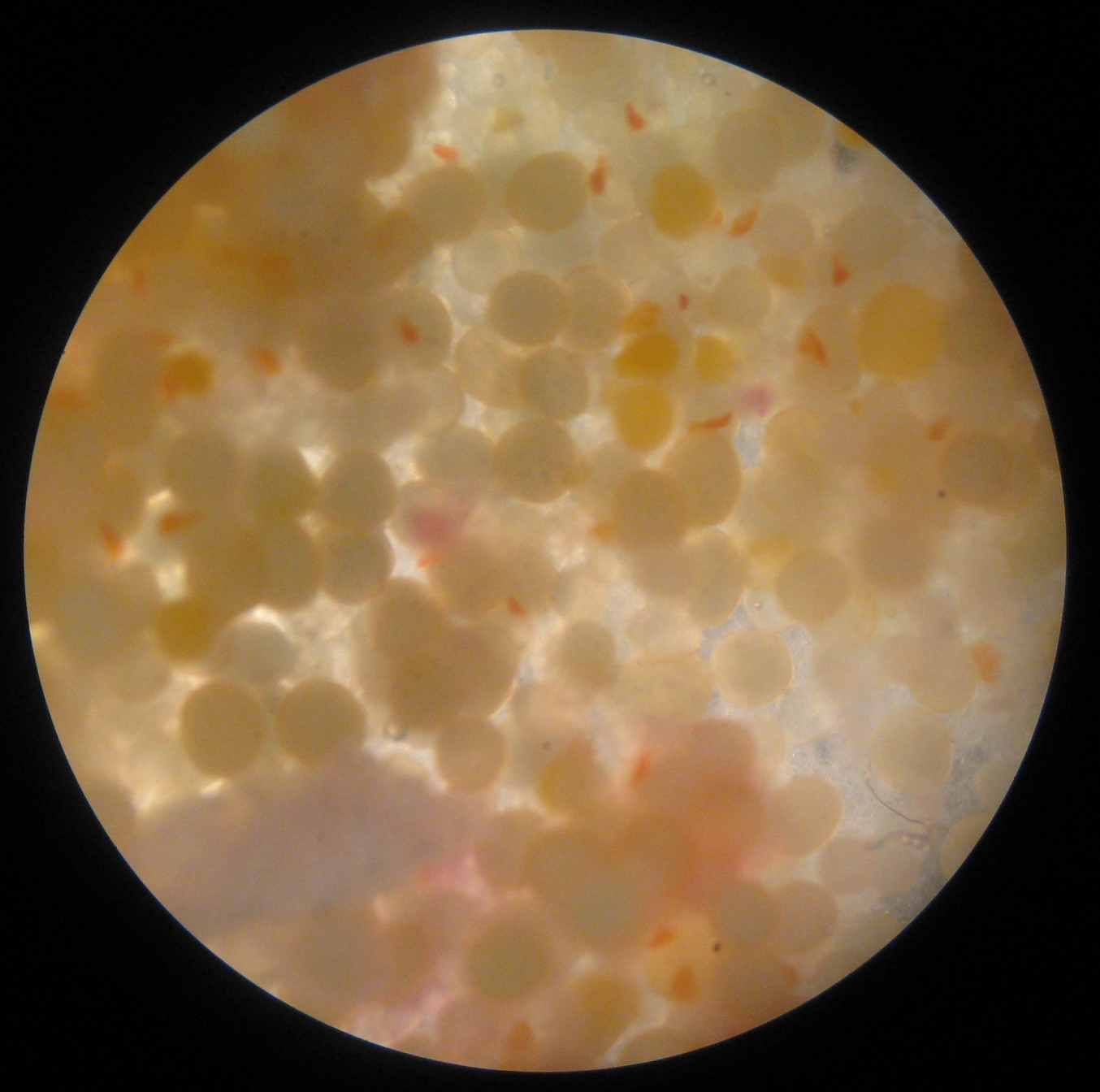 The eggs of a crucian carp under the microscope.